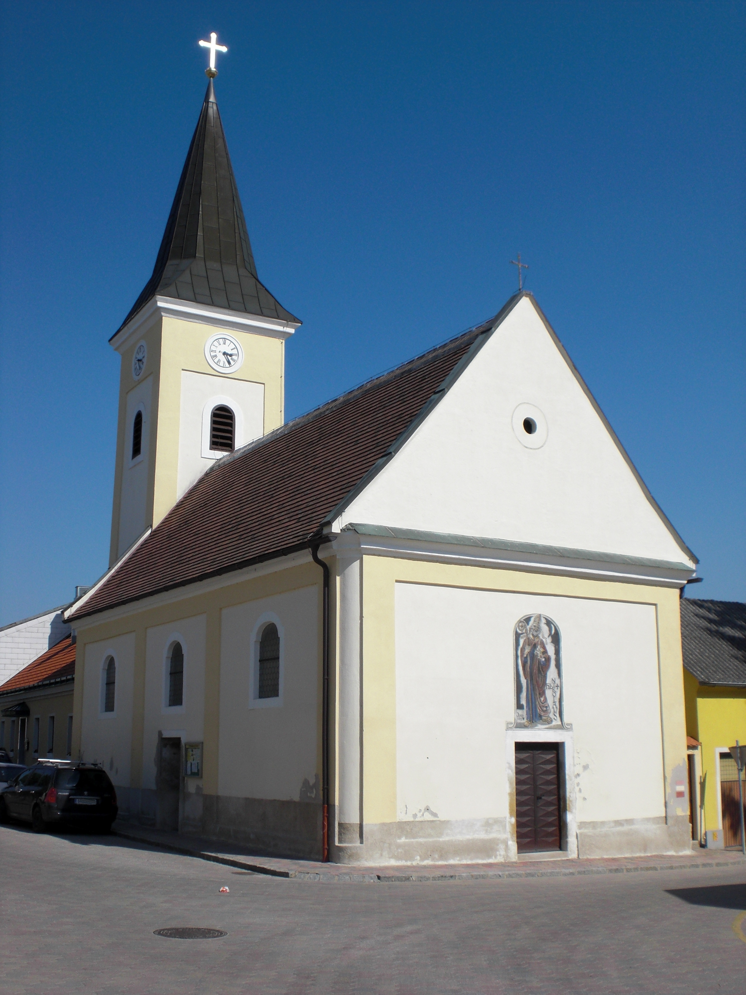 Catholic church St. Nicholas in Wittau, Groß-Enzersdorf, Lower Austria